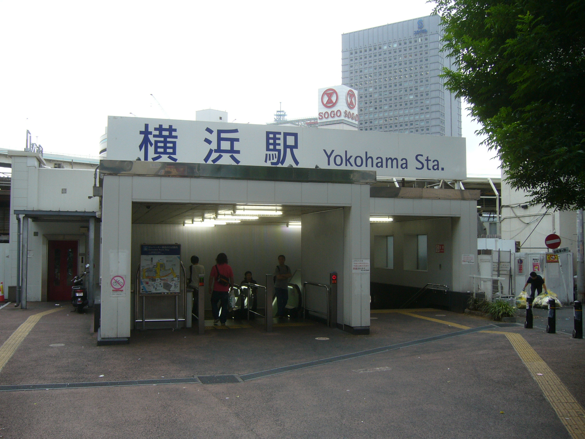 N.West exit of Yokohama station.